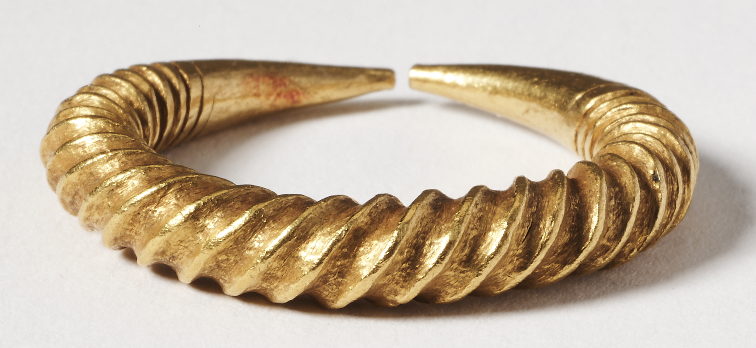 Gold twisted pennanular (open sectioned) ring, possibly Bronze Age. The tightly twisted style of the ring may indicate that it is from the Middle or Late Bronze Age. Gold strips or bars were twisted to form the twisted design.